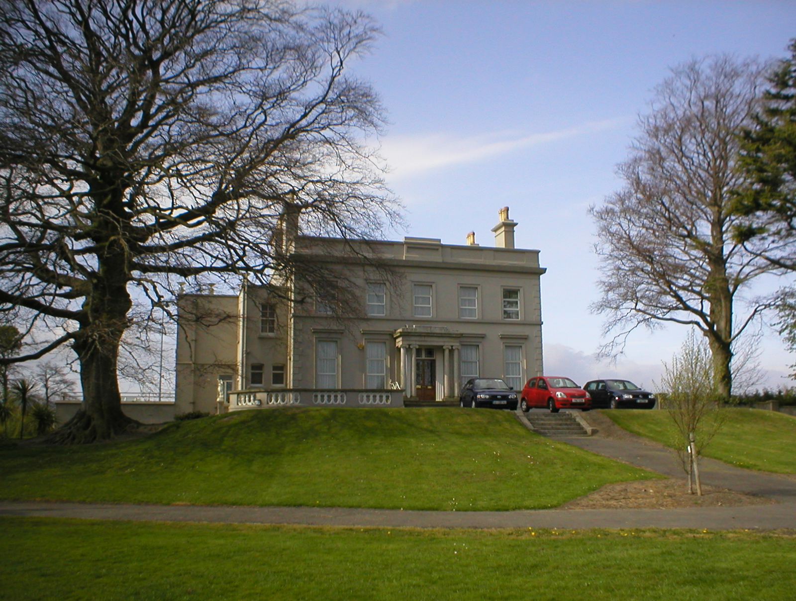 original digital image Suckindiesel 23:46, 15 April 2007 (UTC)